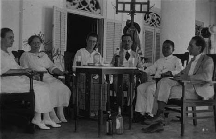 Dr. Radjiman, mister Koperberg and other people in Hotel Slier at Solo